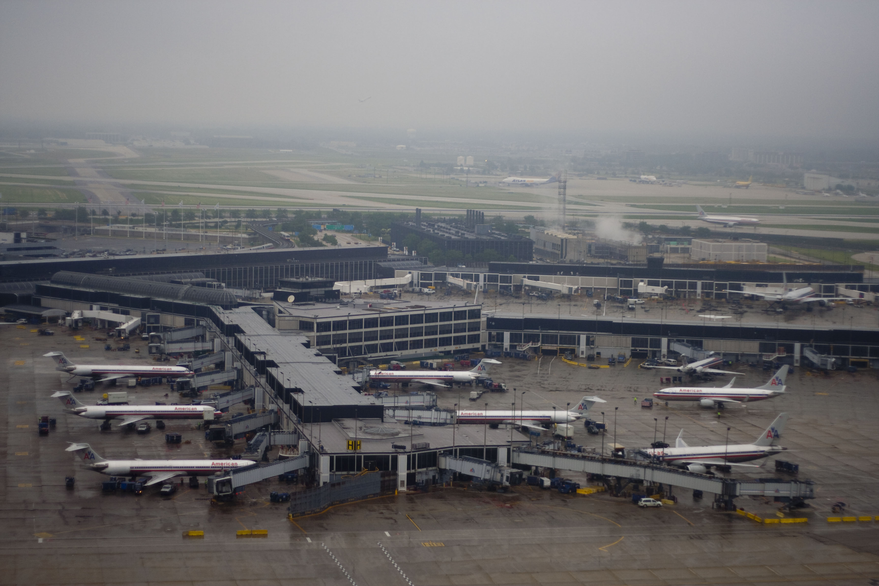 concourse H at O'Hare International Airport, Chicago, Illinois, USA